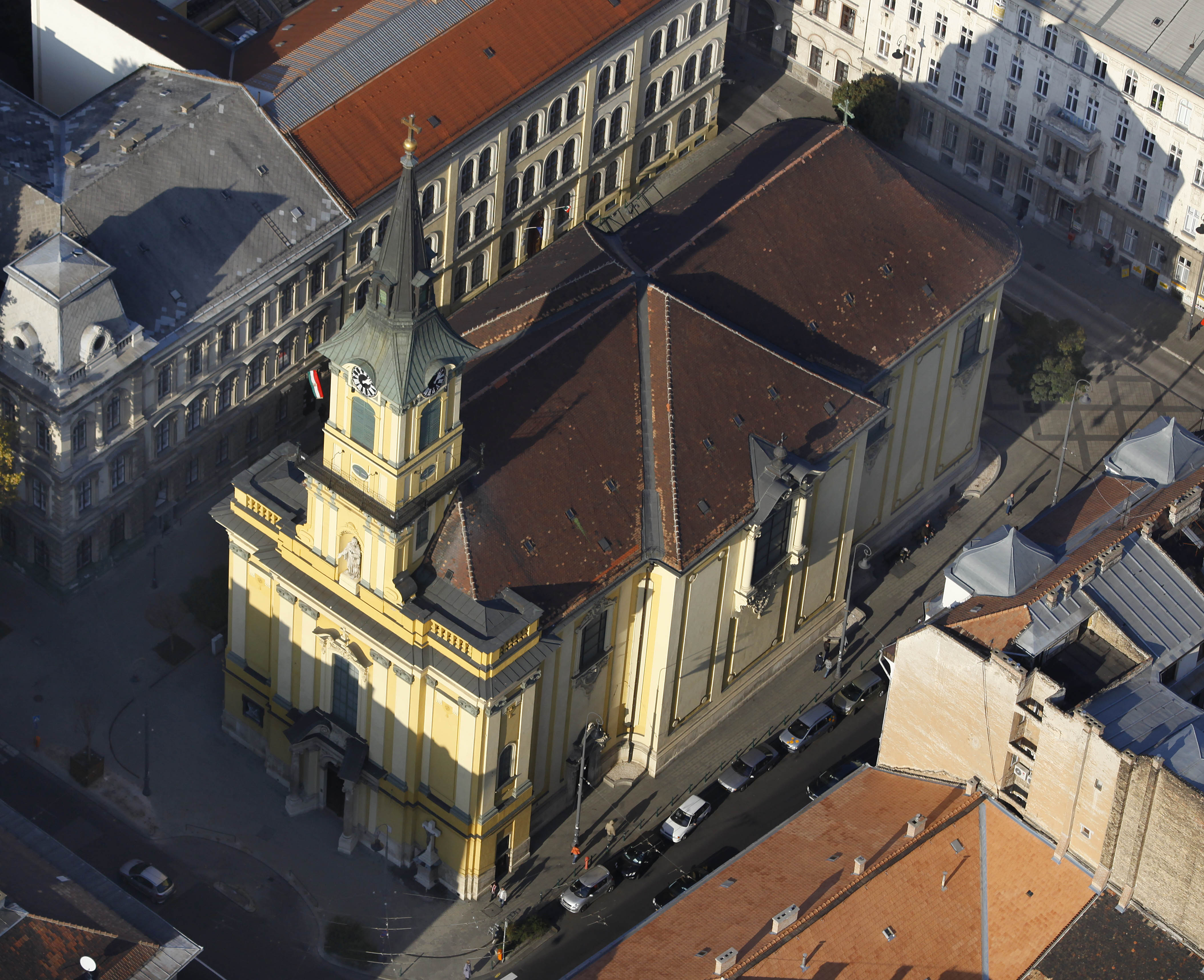 2, Pethő Sándor Street, VI district, Budapest, aerial photography, St. Teresa of Avila Church